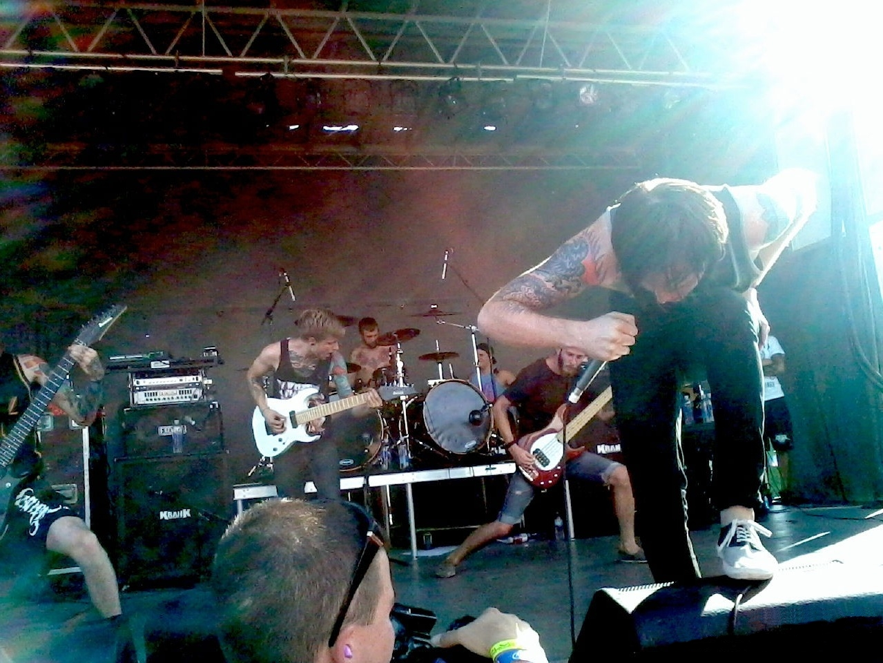 Utah-based extreme metal band Chelsea Grin performing in Las Vegas in 2011.